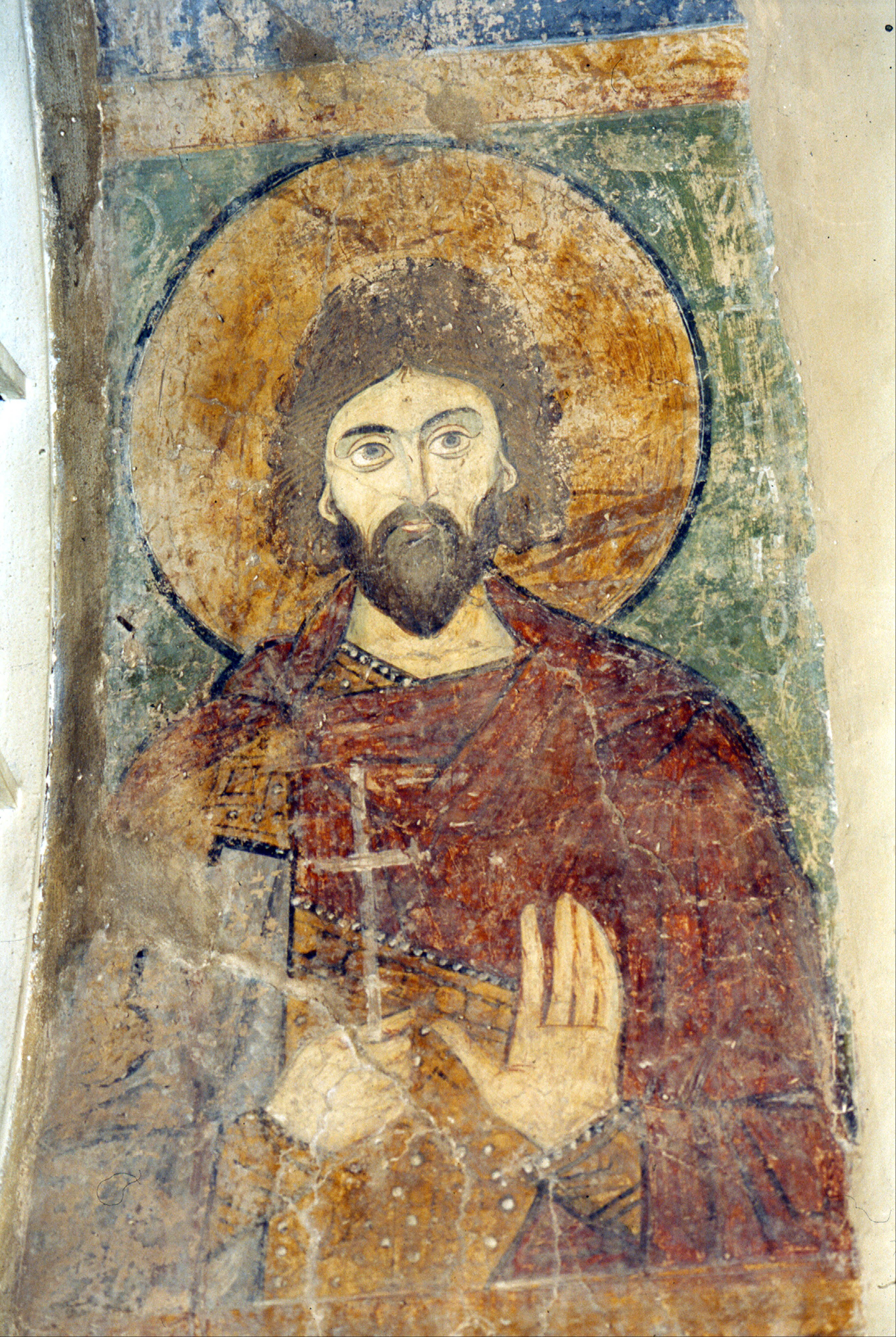 Saint Adrian and Saint Natalia- a man and a woman, which suffered for the faith during the rule of Emperor Maximilian IV. Adrian, a court clerk, having seen the strength of faith of persecuted and tortured Christians, gave his life to Christ and was himself tortured and put to death.